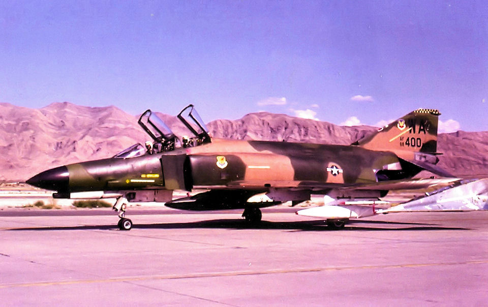 66th Fighter Weapons Squadron - McDonnell Douglas F-4E-38-MC Phantom 68-0400. Sold to Turkey in 1990.